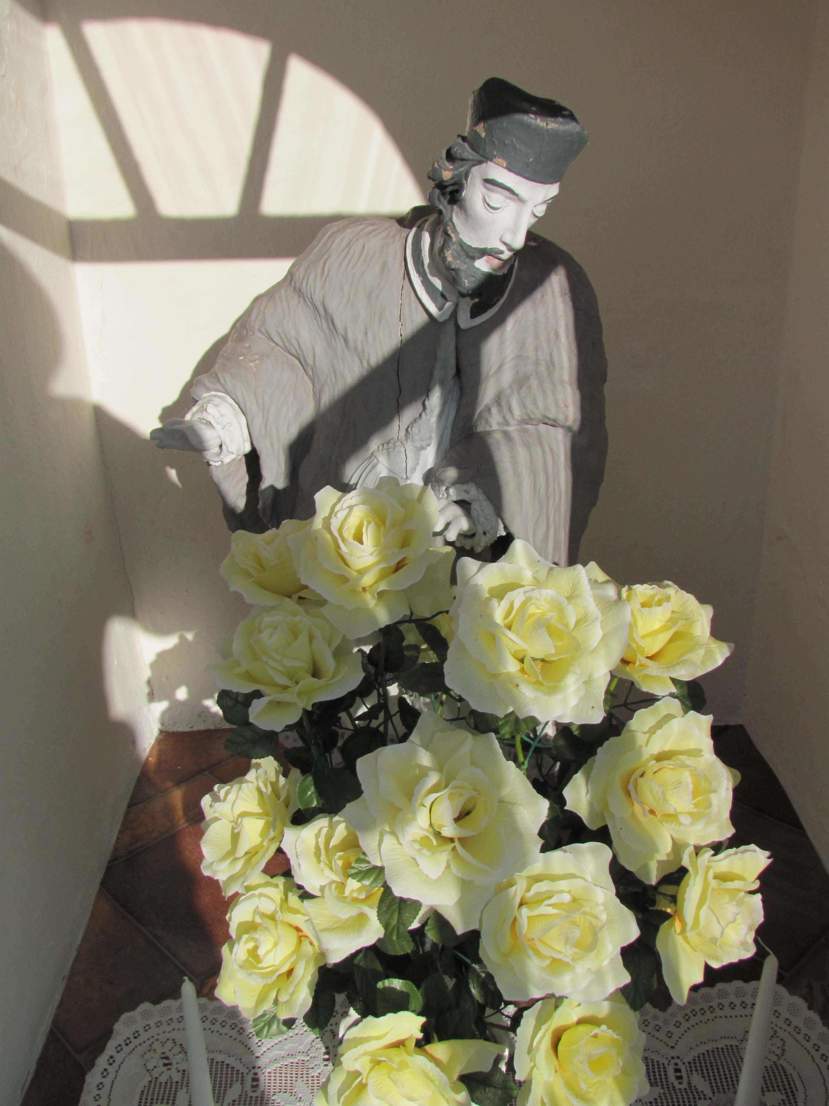 John of Nepomuk shrine in Wierzchy